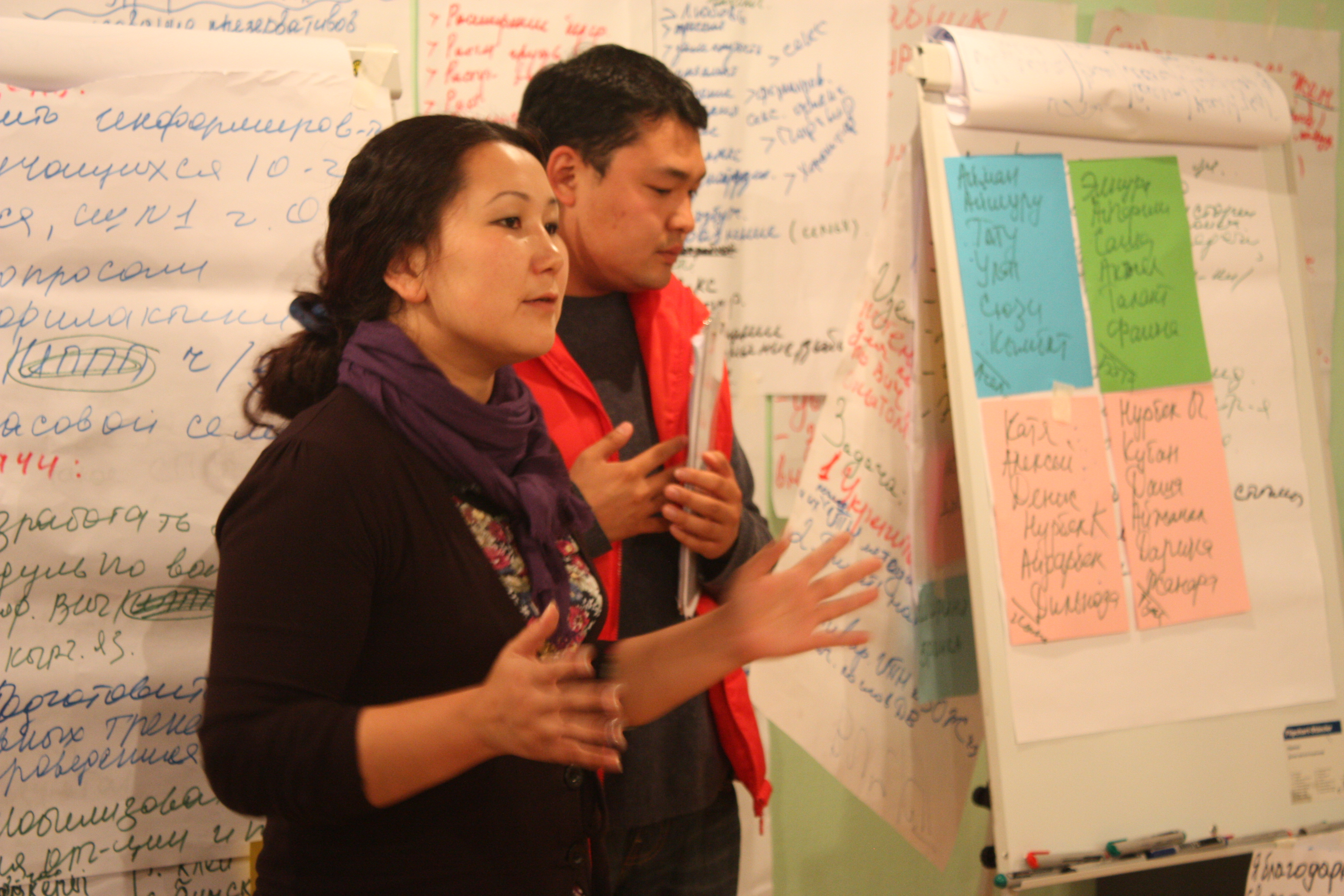 The photo was made in Y-PEER Kyrgyzstan`s training of trainers